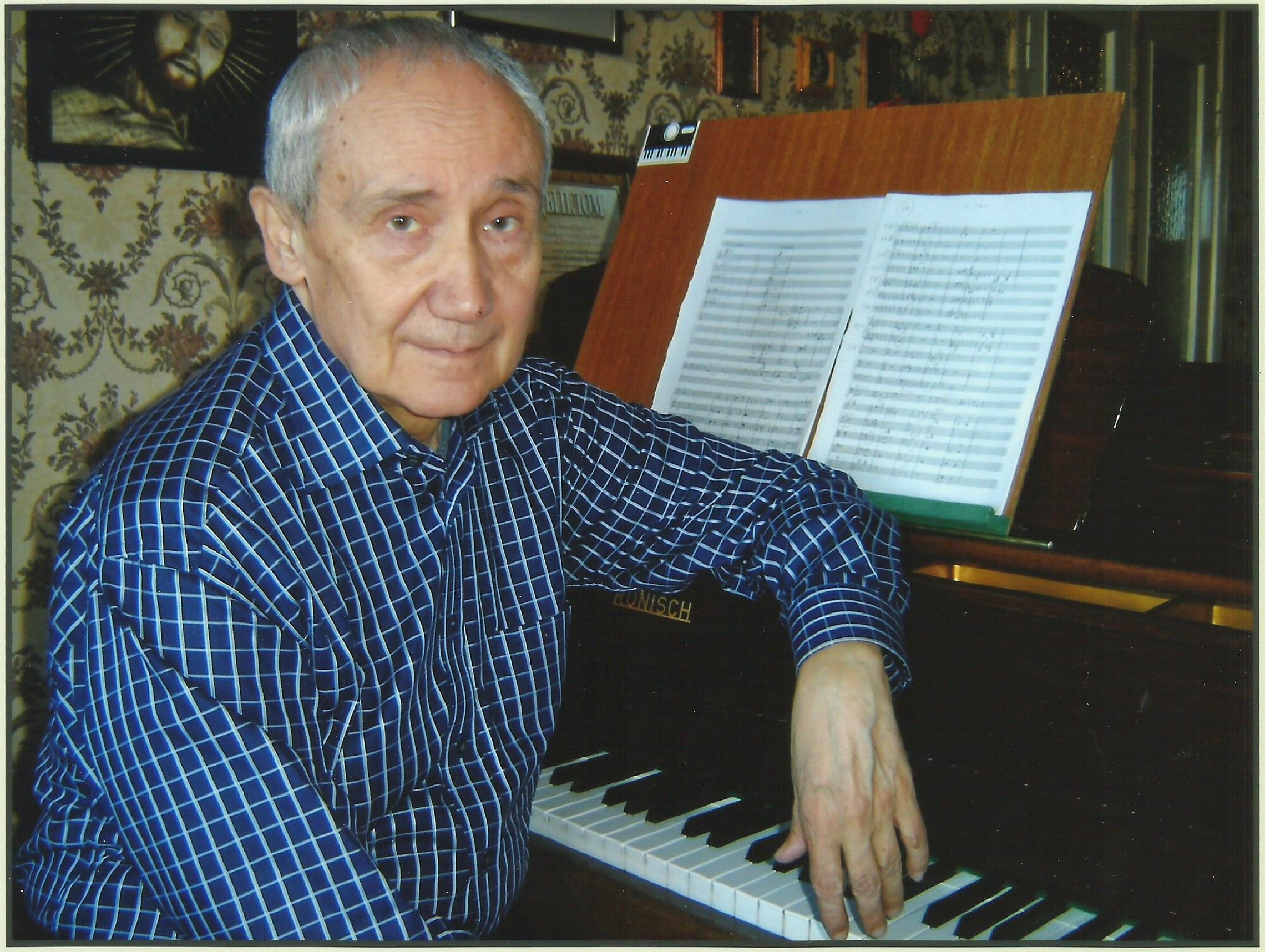 Dzmitry Smolski, famous Belorussian composer